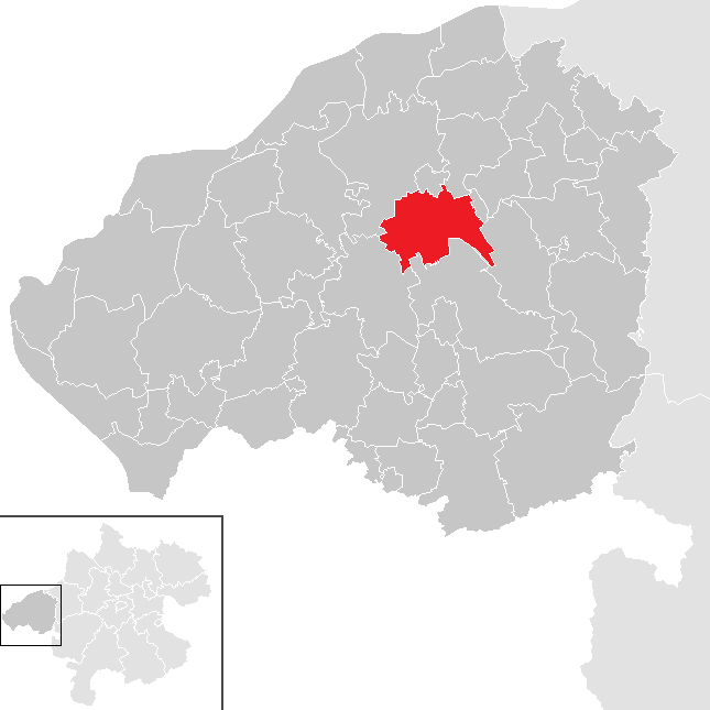 district Braunau am Inn